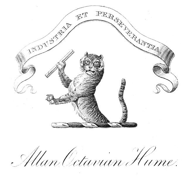 Bookplate of Allan Octavian Hume (d. 1912) - motto - Industria et Perseverantia - from a book in the library of the South London Botanical Institute, London.